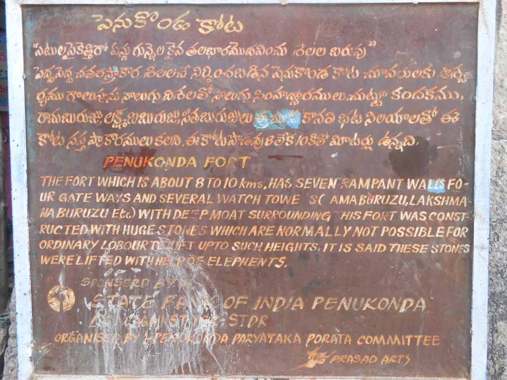 Gaganmahal (Summer palace of Vijayanagara Raja’s), 17th century